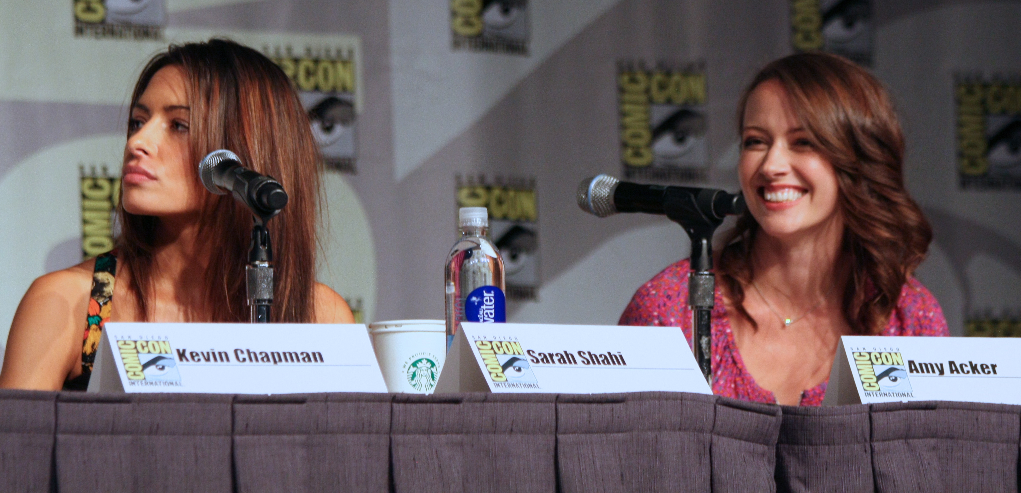 Sarah Shahi (Sameen), Amy Acker (Root) Person of Interest Panel at the 2014 San Diego Comic Con